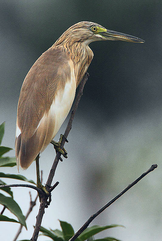 Image taken at Abuko Ricefields, The Gambia